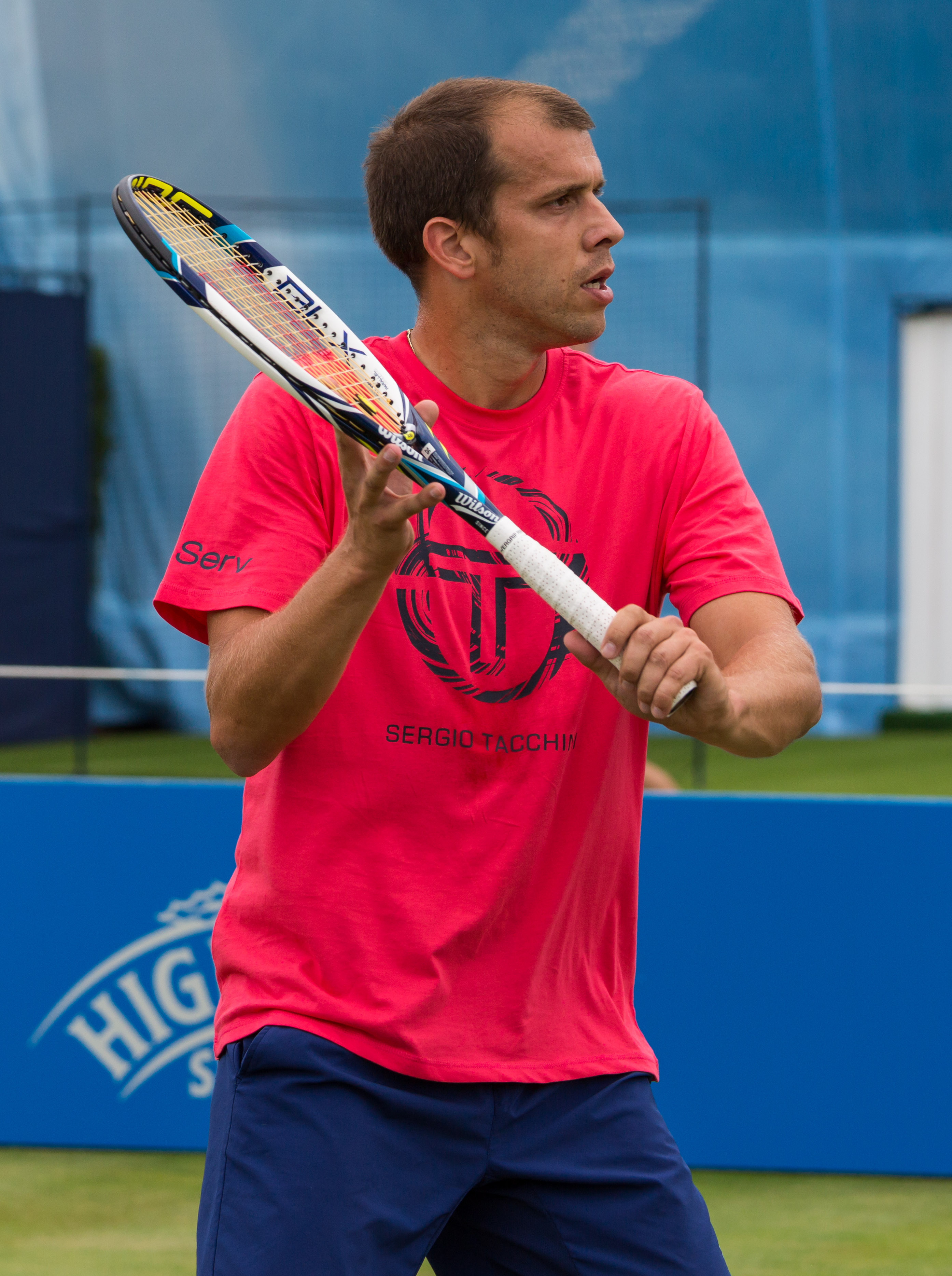 Gilles Müller during practice at the Queens Club Aegon Championships in London, England.